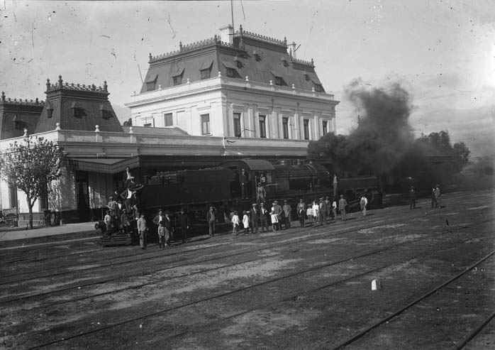 A steam locomotive train stopped at San Luis station. The operator of the line was BA & Pacific Railway